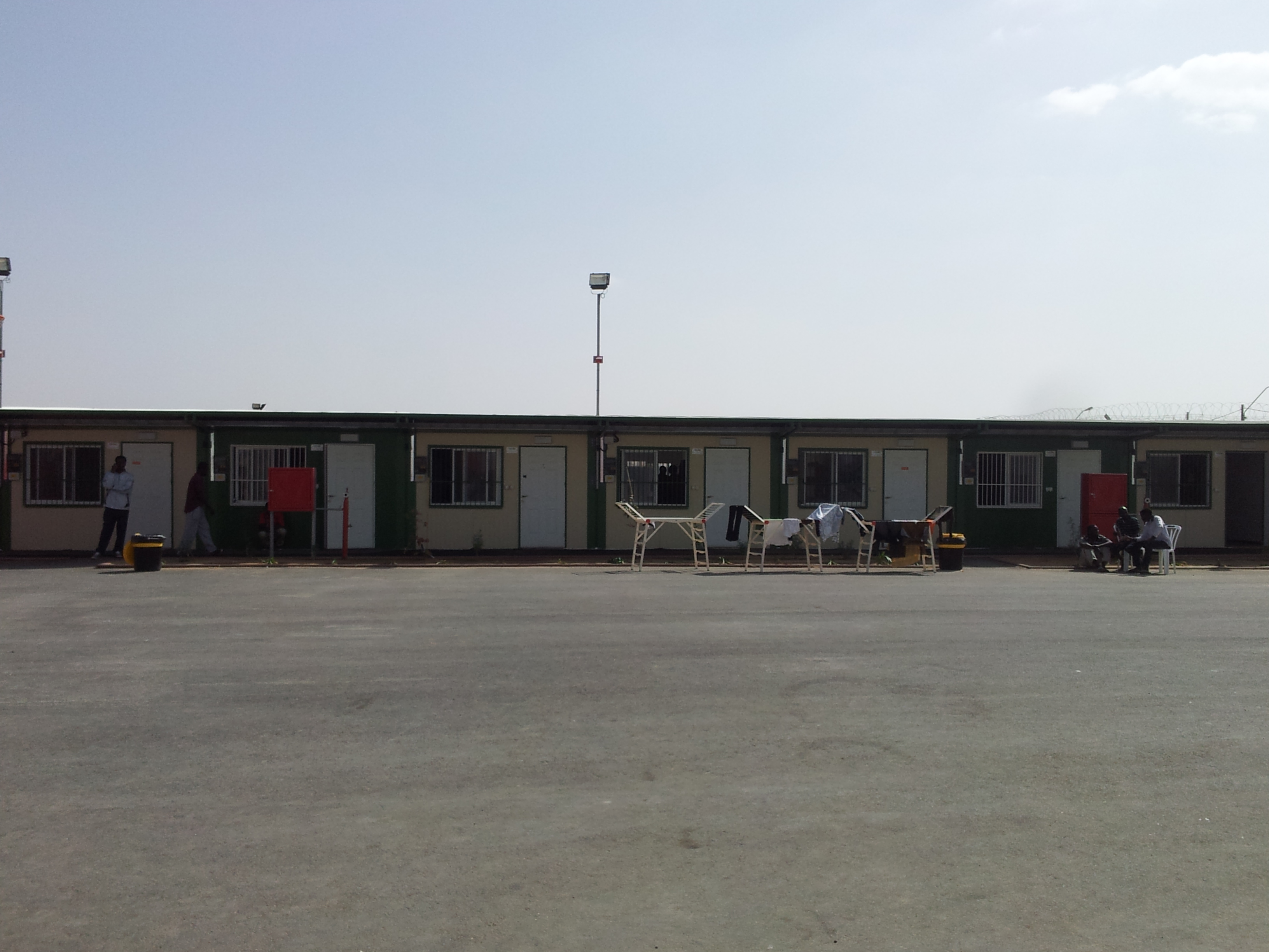 Holot detention center in the Negev